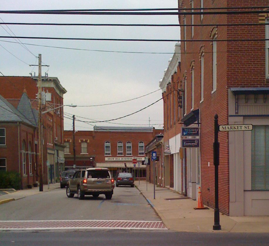 Snow Hill business center.